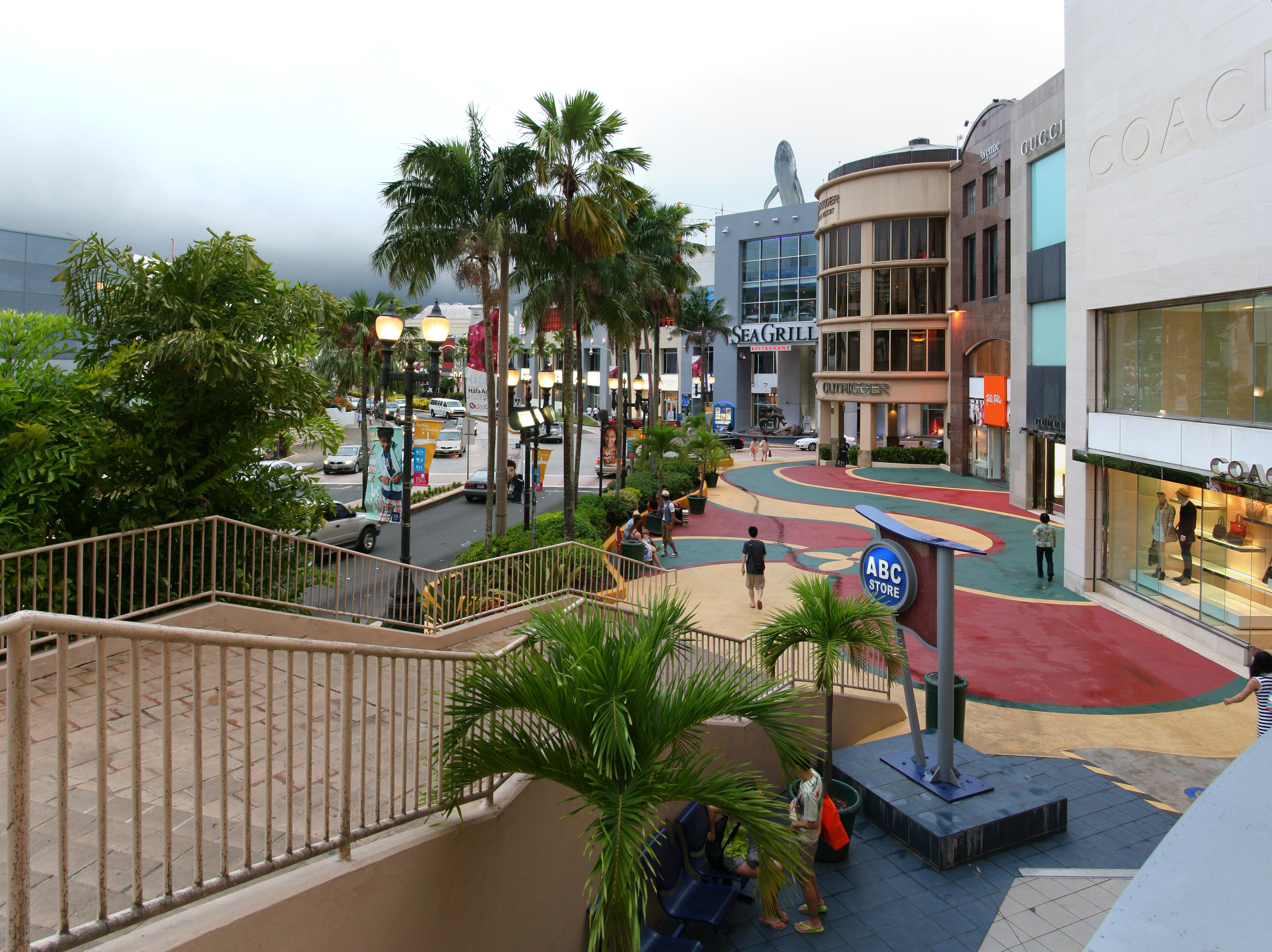 View of Tamuning, Guam. Taken from the front of Outrigger Guam Resort shoppign mall.